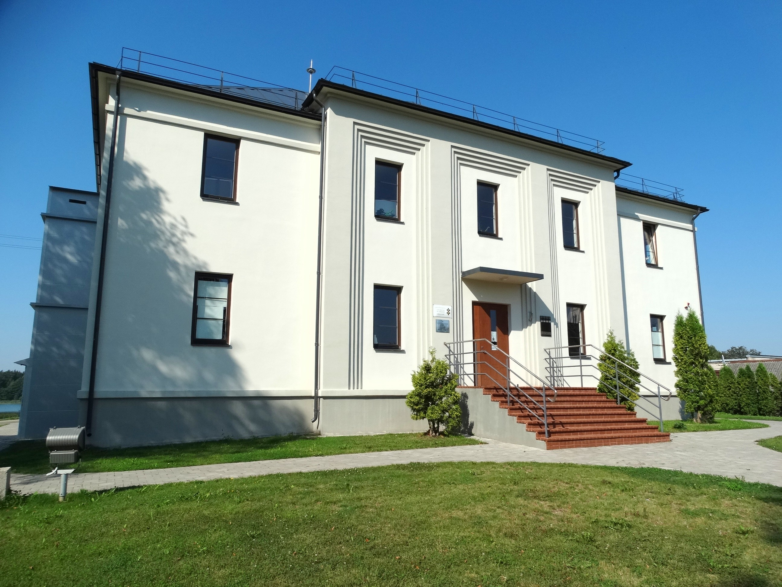 Museum in Obeliai, Rokiškis district, Lithuania